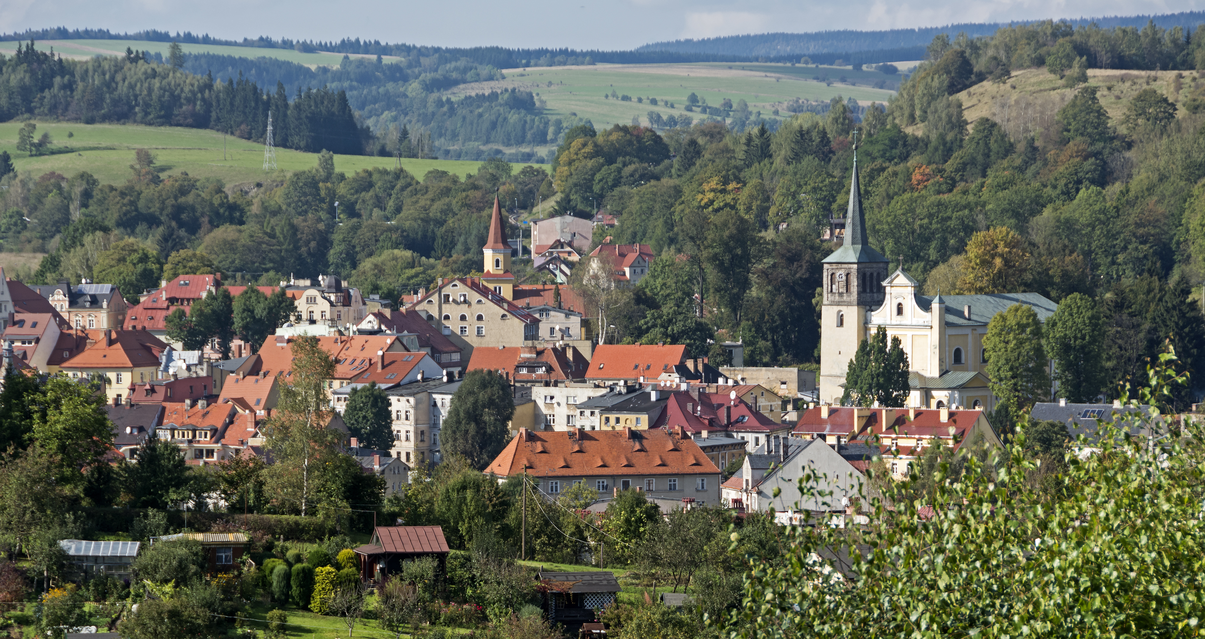 Historic center of Duszniki-Zdrój